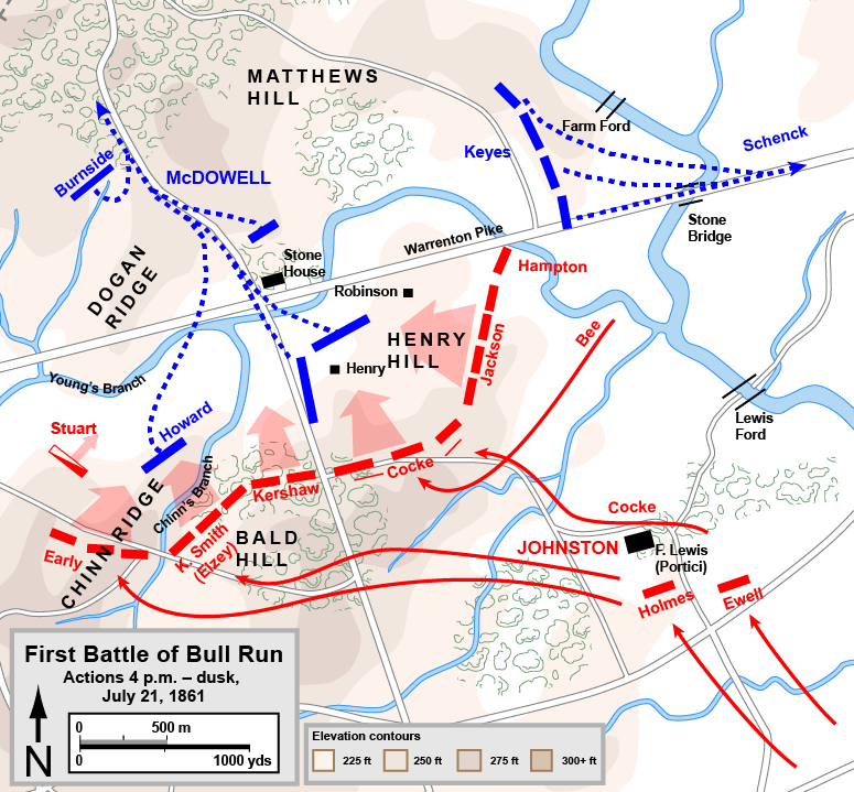 Map of First Battle of Bull Run (4pm, July 21, 1861) of the American Civil War. Drawn in Adobe Illustrator CS5 by Hal Jespersen. Graphic source file is available at